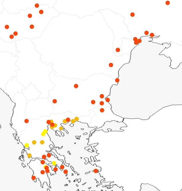 Red: lion remains (Bartosiewicz, 2009; Schnitzler, 2011;Thomas, 2004; Thomas, 2014) Orange: lion locations according to ancient Greek authors (Herodotus, Aristotle, Xenophon, Pausanias, Themistius) Yellow: lion locations according to ancient Greek legends